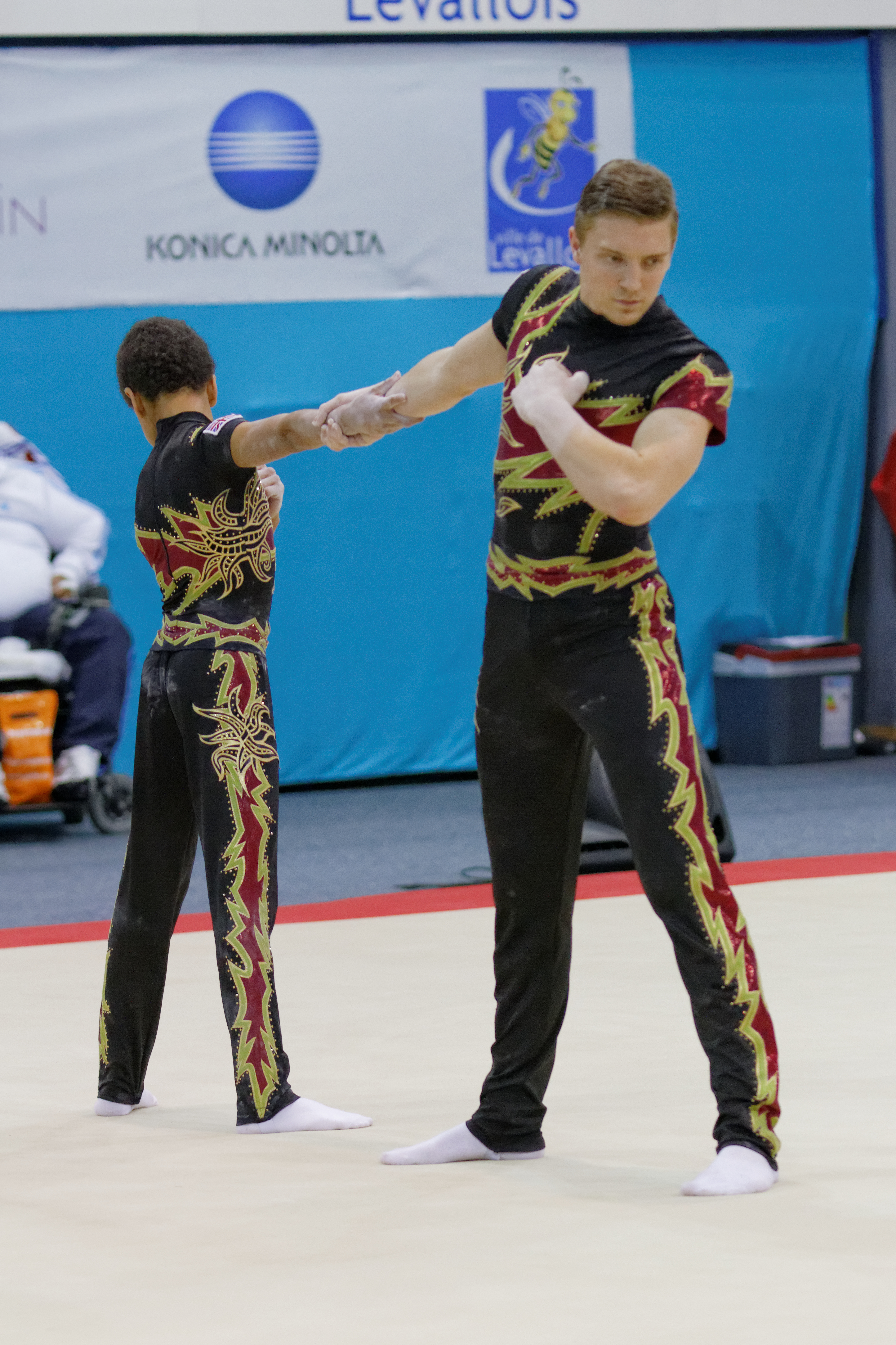 2014 Acrobatic Gymnastics World Championships, 10th-12 July, Levallois-Perret, France. Finals: men's pair. Great Britain.